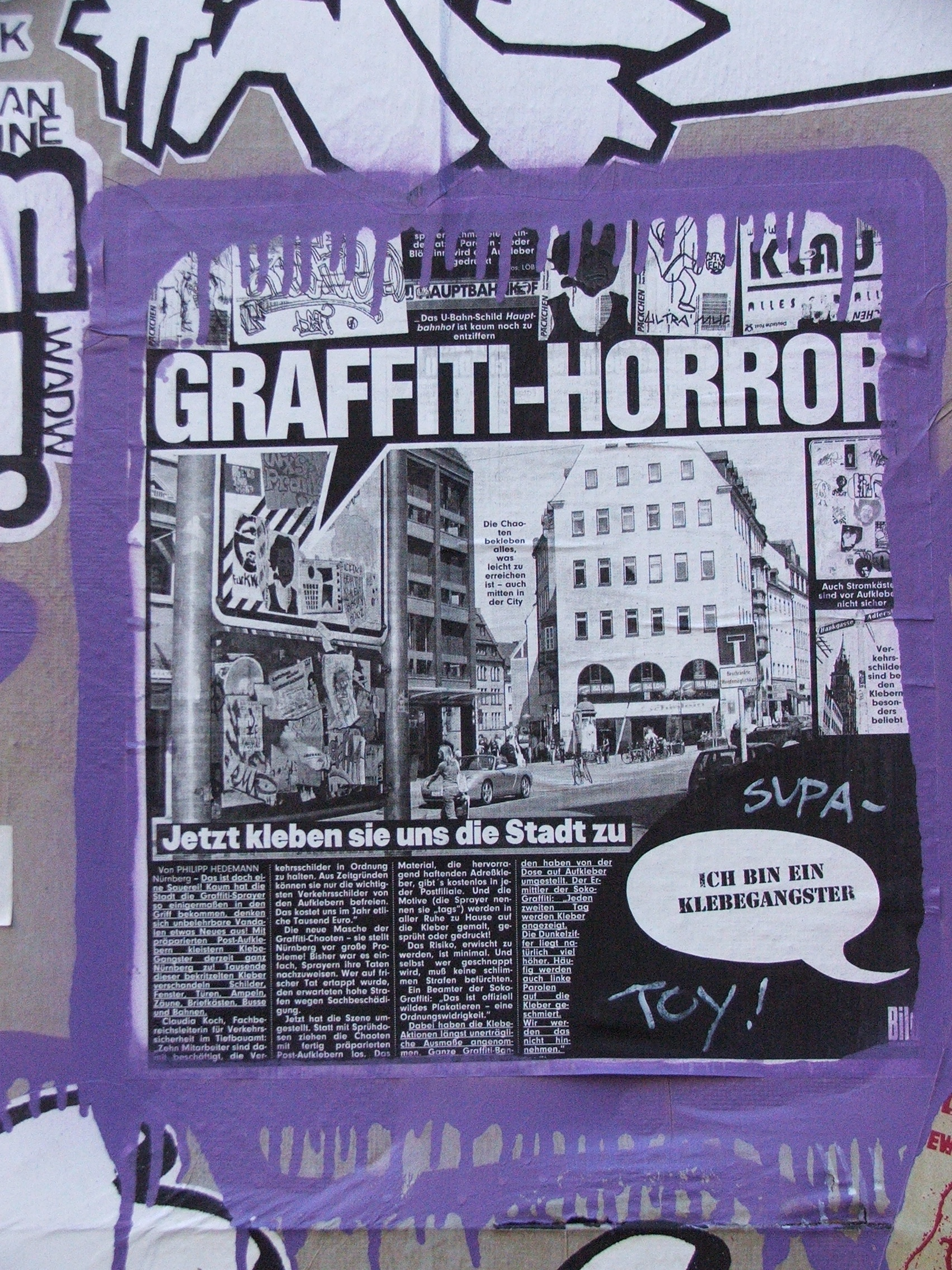 article about street art